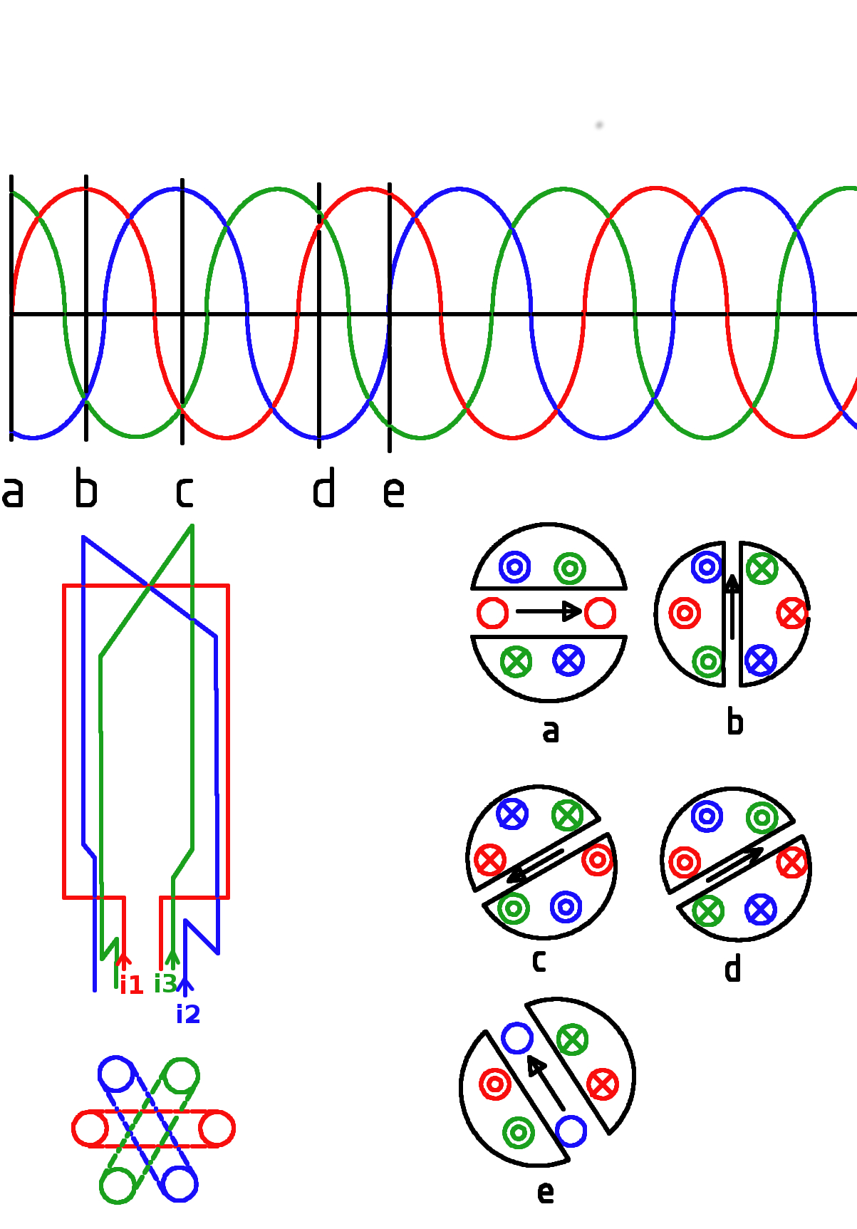 Rotating magnetic field